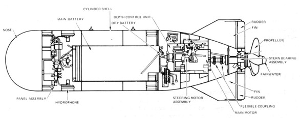 Mark 24 mine diagram, published in "A Brief History of U.S. Navy Torpedo Development", E.W. Jolie, 15 September 1978